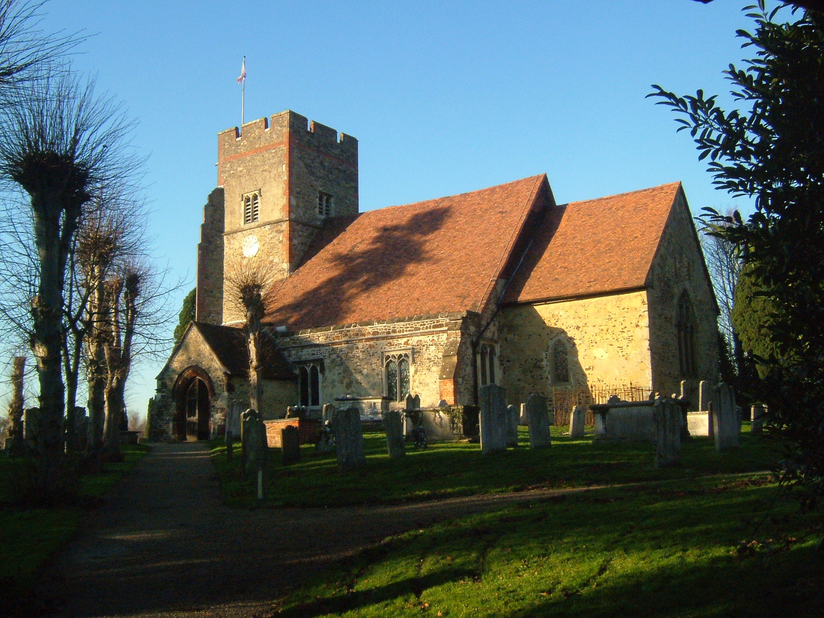 St Peter's parish church, Ightham, Kent, seen from the southeast